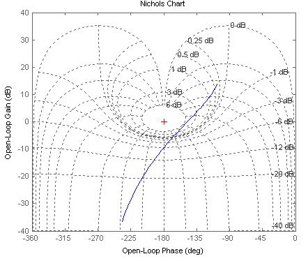 Nichols plot created by wolfch with Matlab with the following code: nichols(tf([0 0 0 10],[0.005 0.15 1 0]),{2,50}) ngrid %num = 10 %den = s (0.1s+1) (0.05s+1)